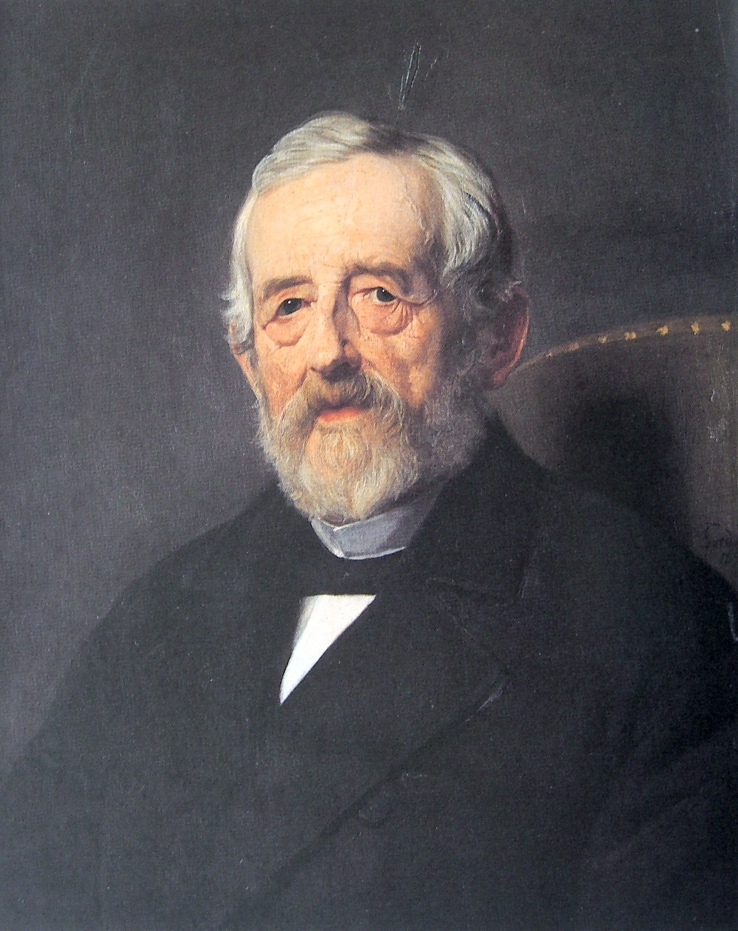 Portrait of Hermann Willebrand by Ferdinand Meyer-Wismar 1896